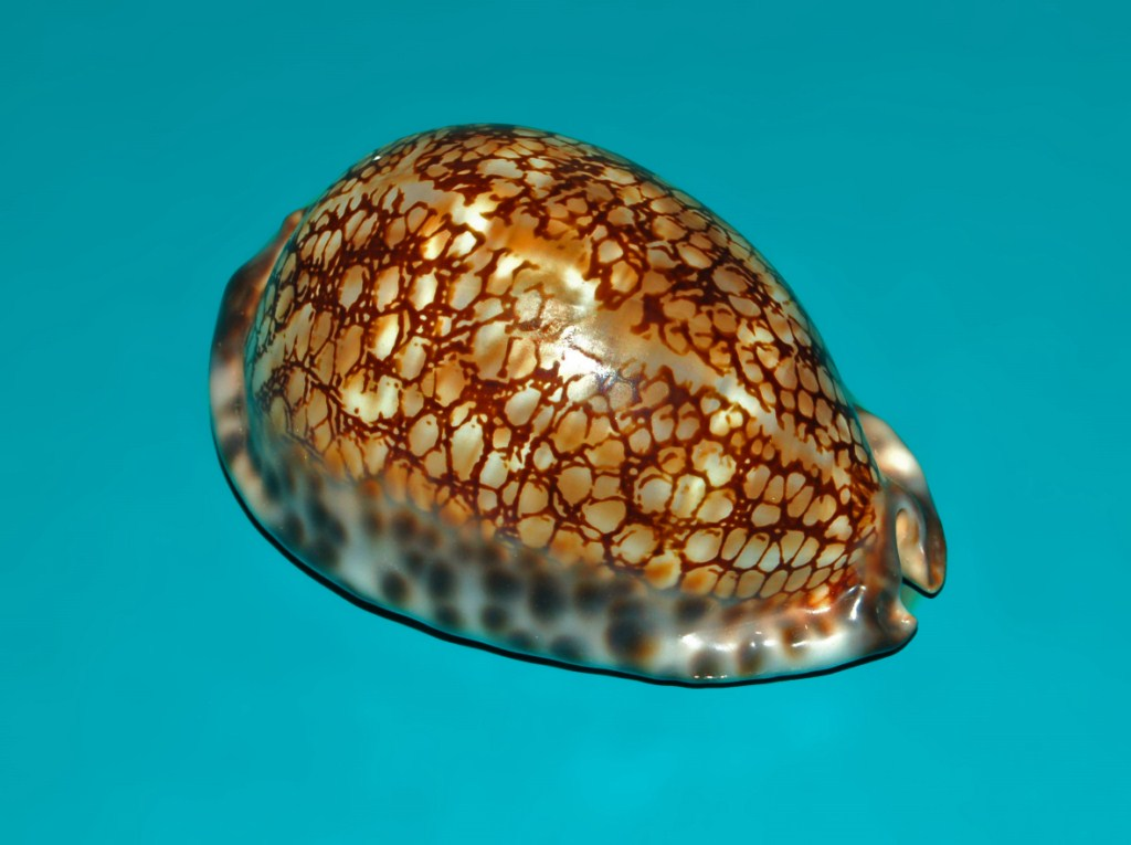 Mauritia maculifera, Rangiroa, Polynesia